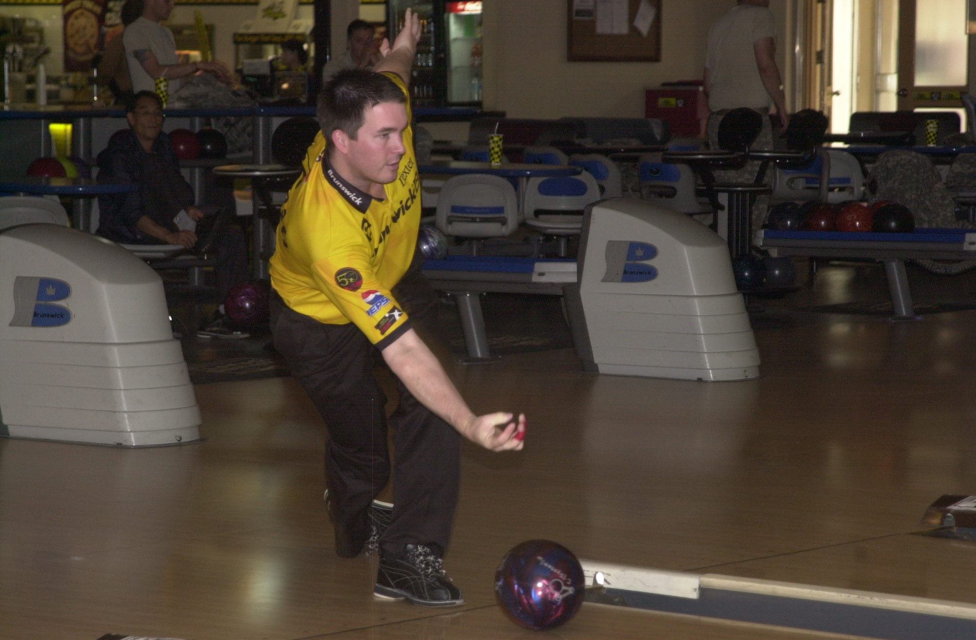 Sean Rash, Professional Bowling Association member, throws a ball in the game with Area I Soldiers and civilians. The two professional bowlers visited Casey Bowling Lane Sept. 21 They demonstrated bowling tricks and gave advice to amateur bowlers while playing. - U.S. Army photo by Cpl. Kim Tae Hoon